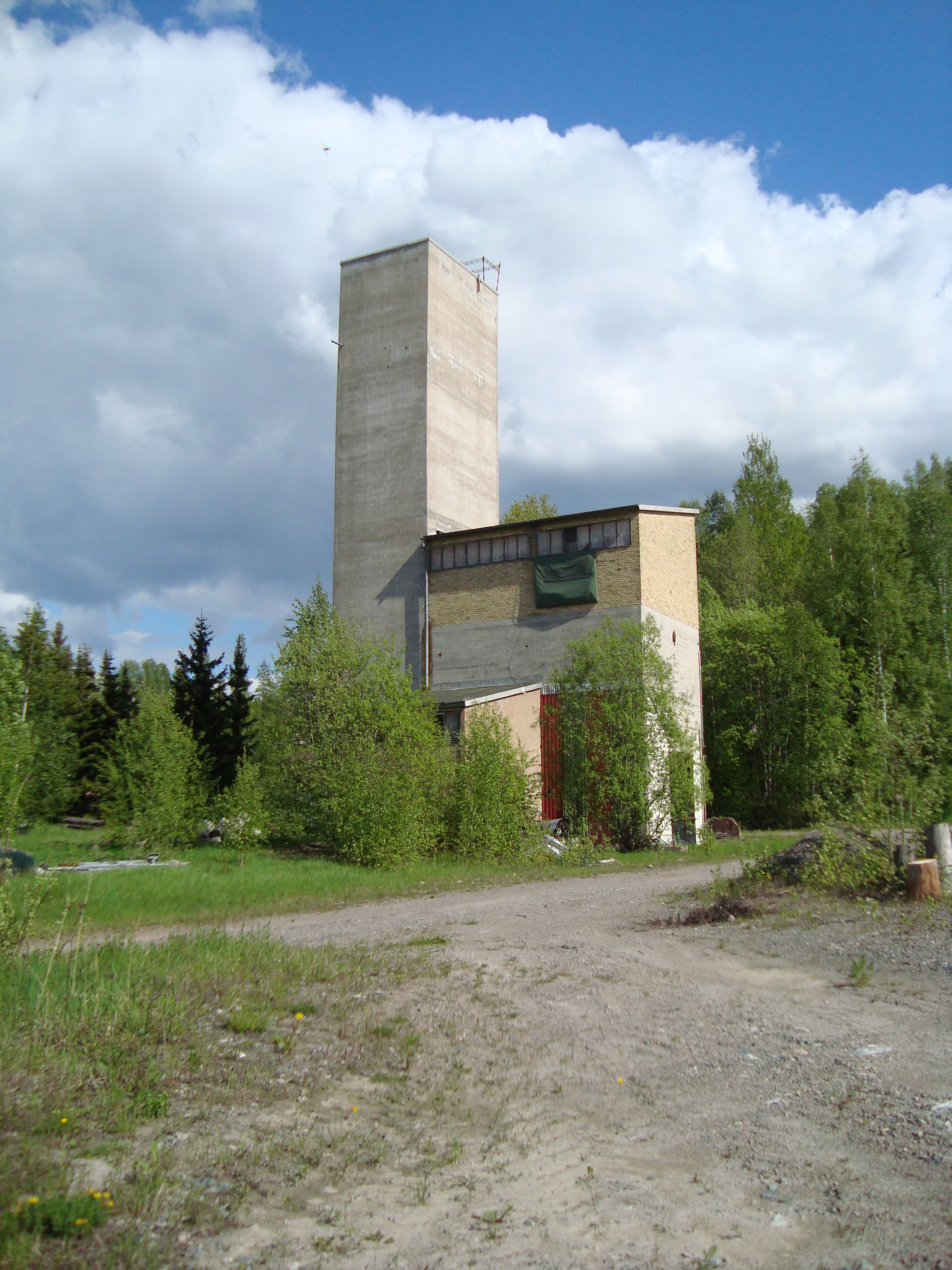 Former iron mine "Forsbo gruva", Säter Municipality, Sweden